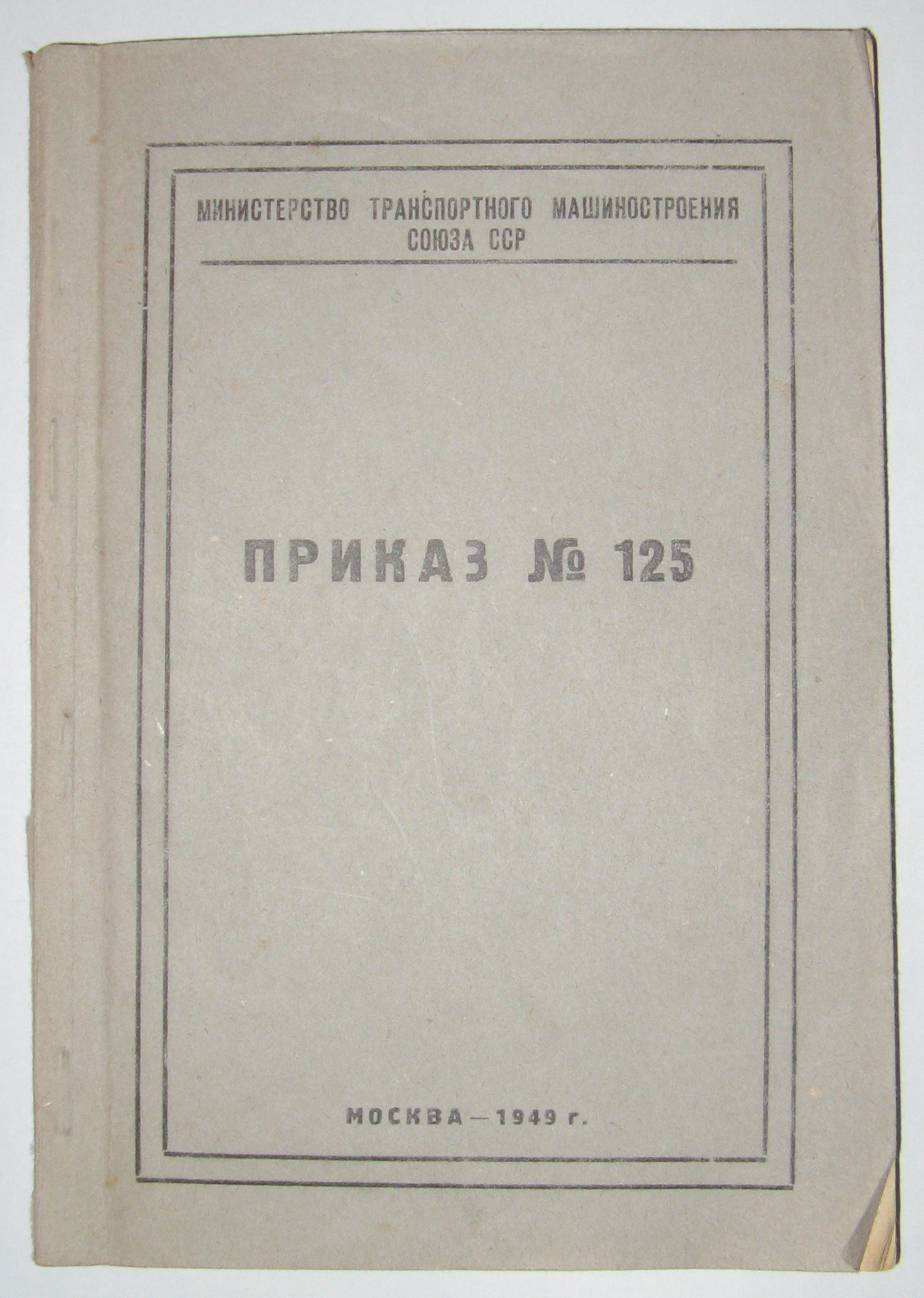 Order №125 of the Ministry of Transport Engineering of USSR. 1949 year.